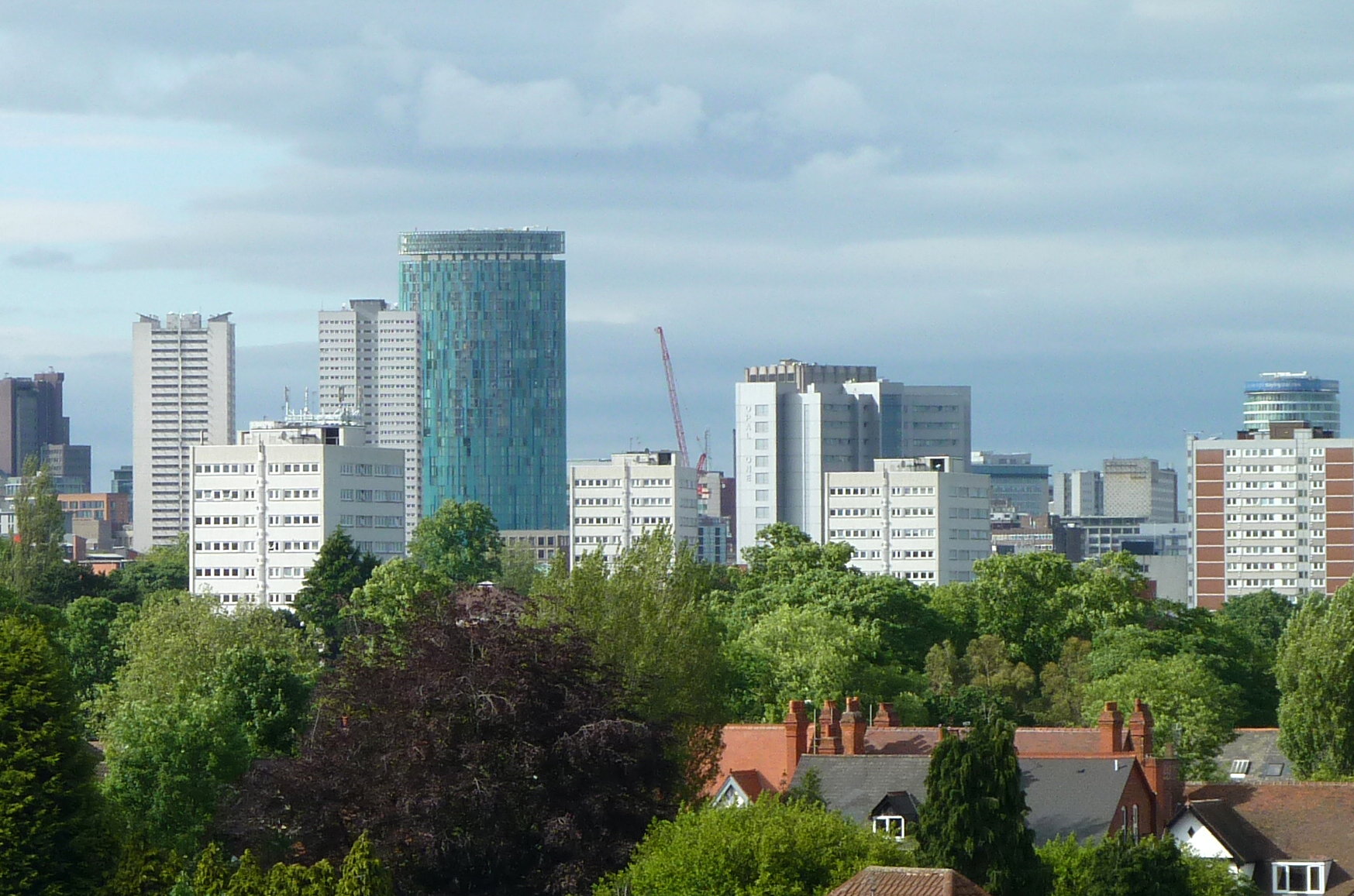 The skyline of Birmingham from Edgbaston Cricket Ground.